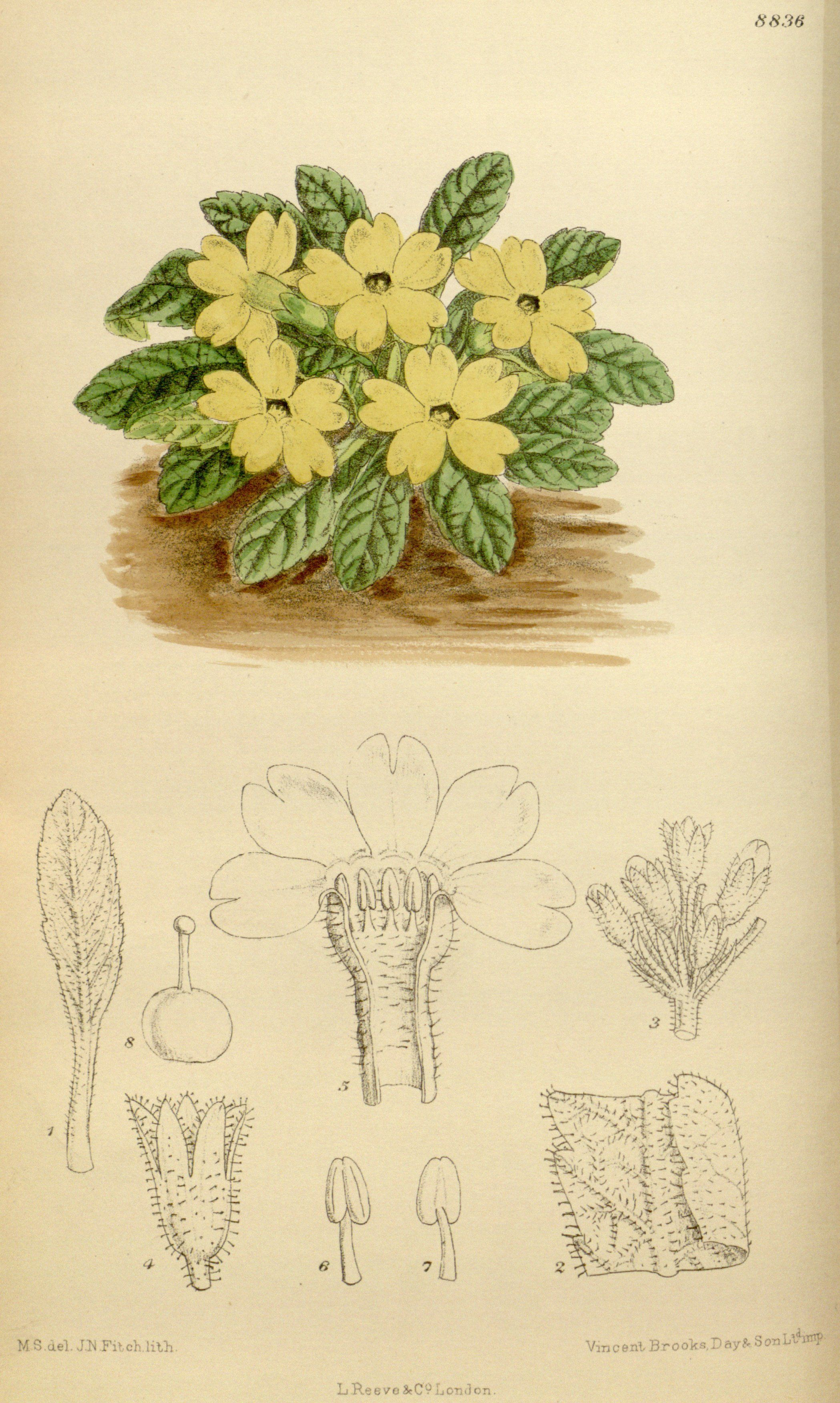 Primula pulvinata (now known as Primula bracteata), Primulaceae